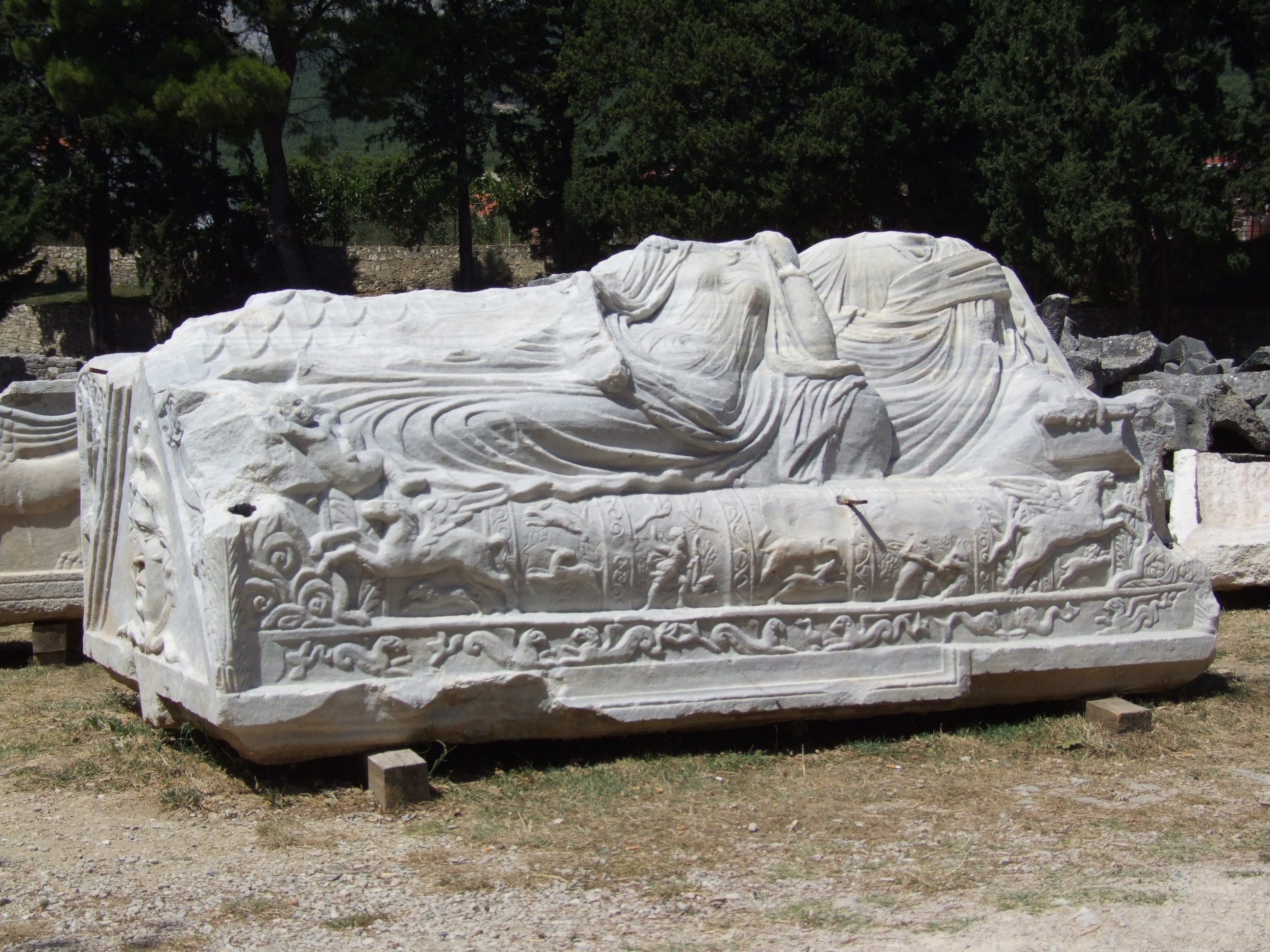 Salona (Solin) - ancient tomb